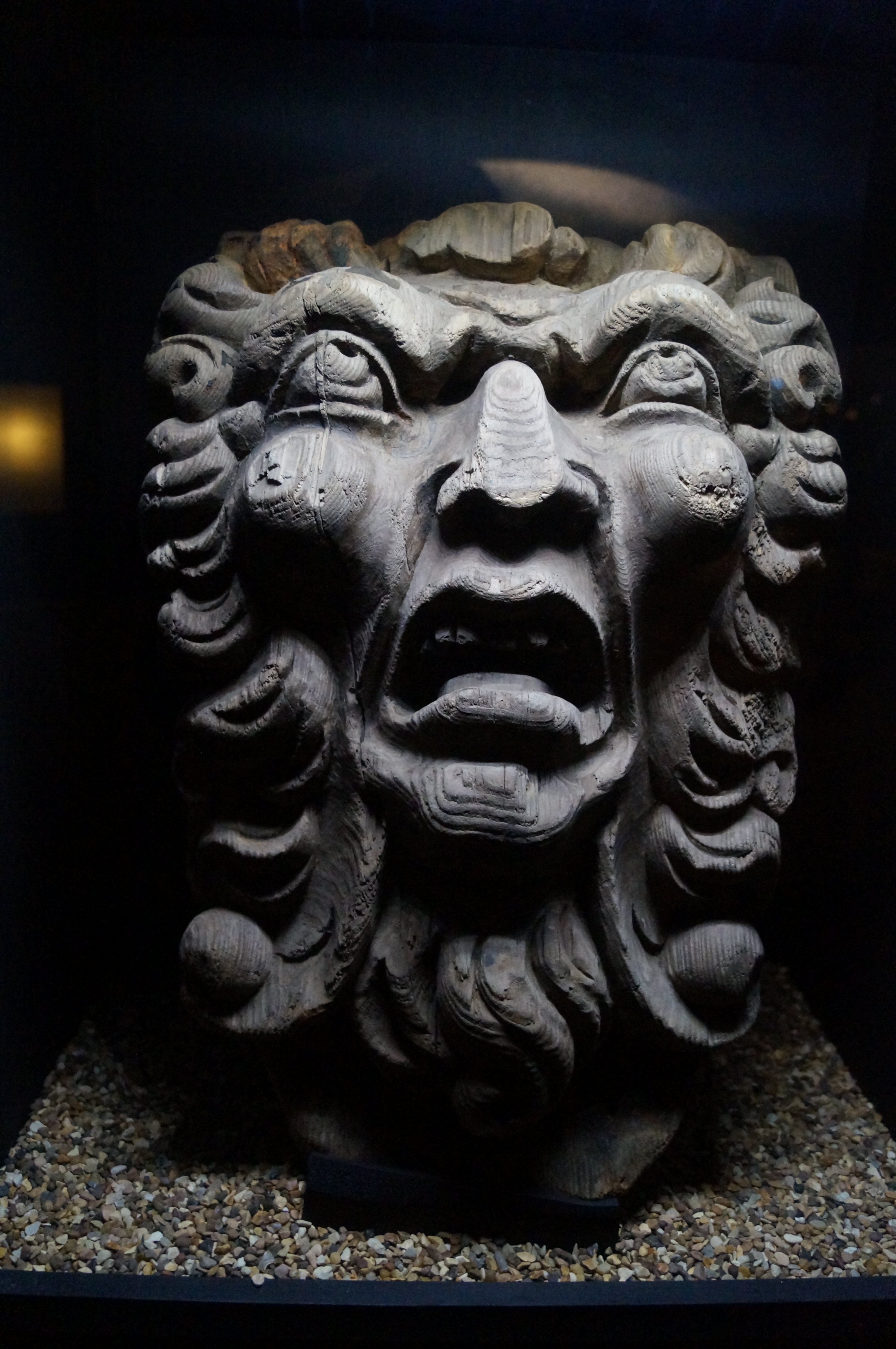 Decorations on the ship Kronan. Exhibited at Kalmar läns Museum.